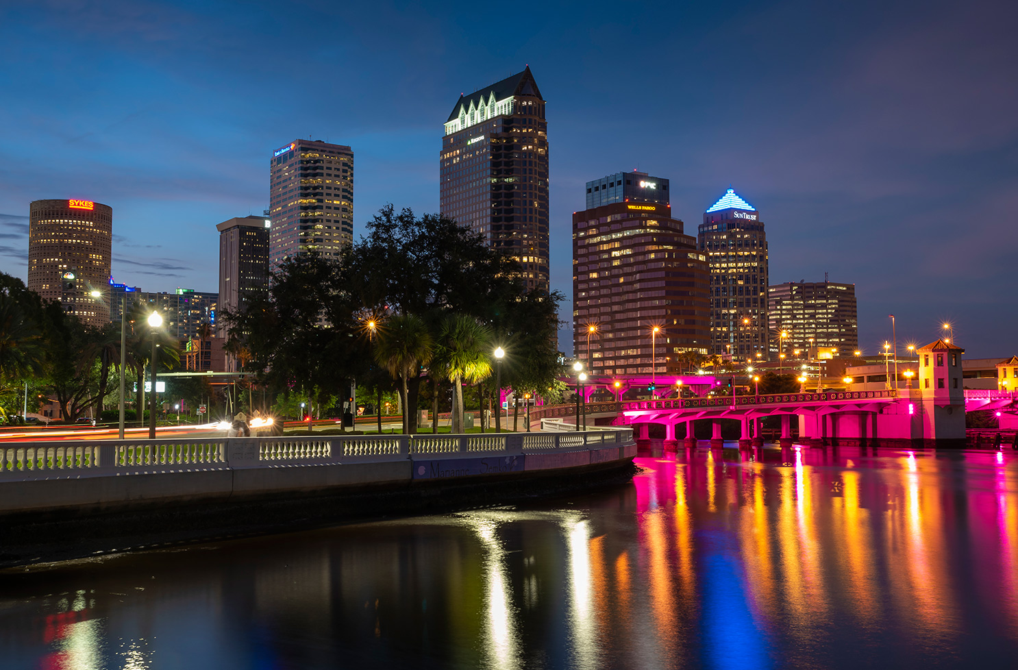 Looking downtown at the Tampa skyline at night